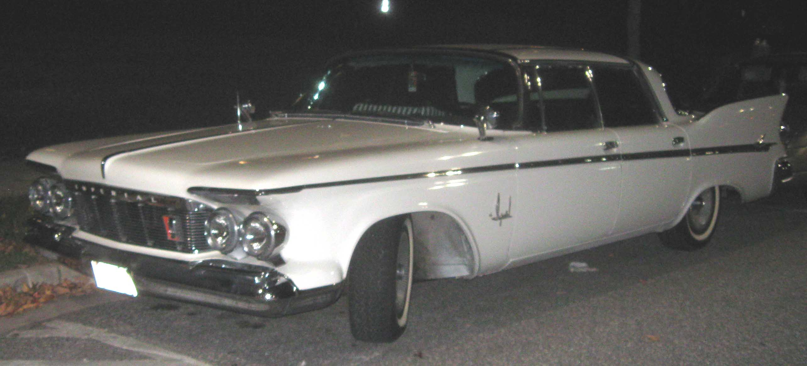 1961 Imperial photographed in College Park, Maryland, USA.